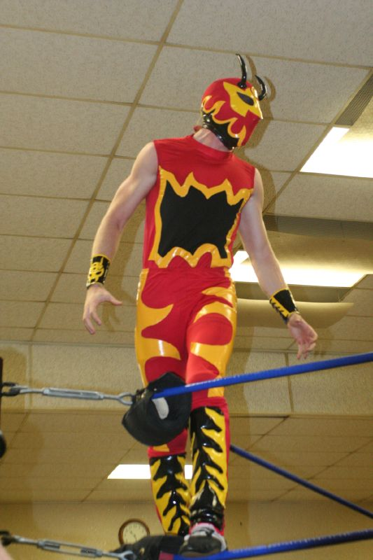 Professional wrestler Fire Ant at a Chikara's Young Lions Cup VI Night #2, on June 20, 2008.